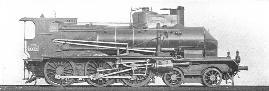 Four-cylinder Compound Ten-wheeler for the Paris, Lyons and Mediterranean Railway.